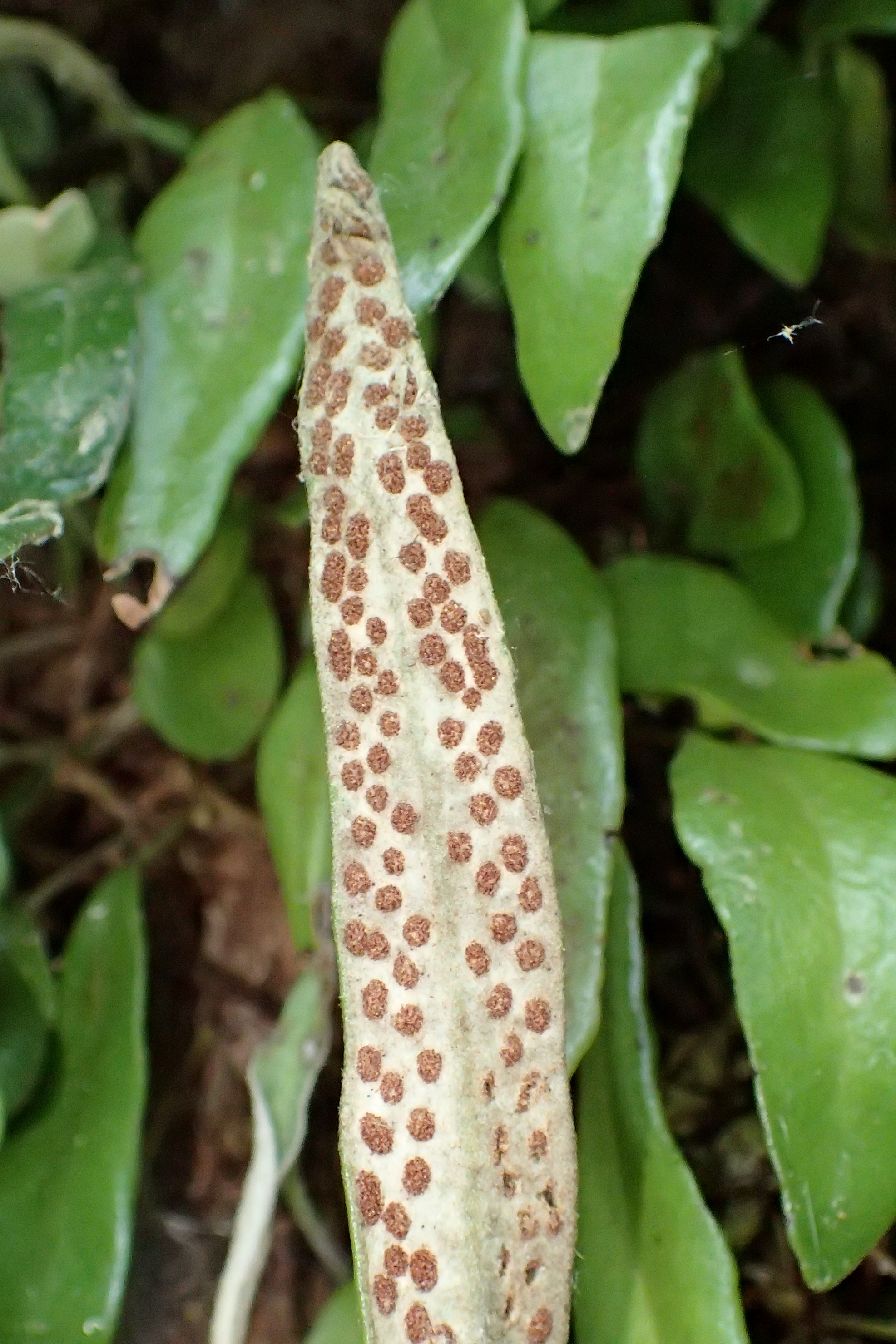 Pyrrosia eleagnifolia in Eastwoodhill Arboretum (New Zealand)